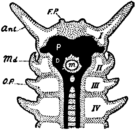 Diagram of the head and adjacent region of Peripatus. Monoprost homerous.